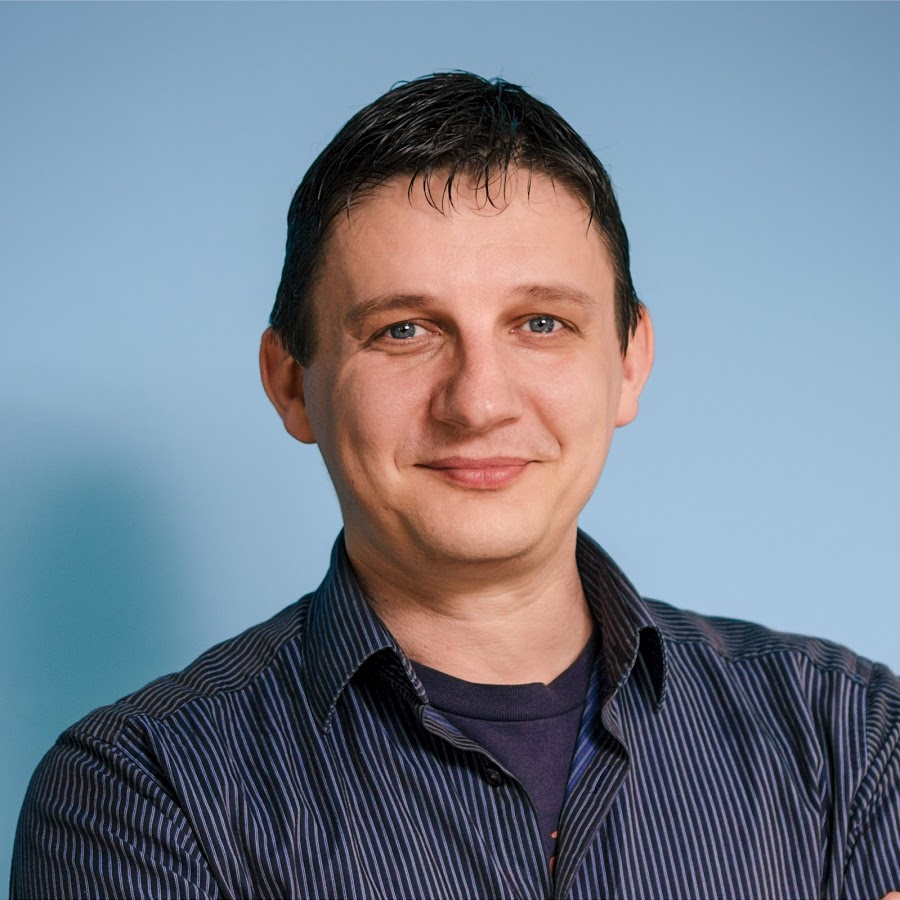 Geoff Marshall profile picture.